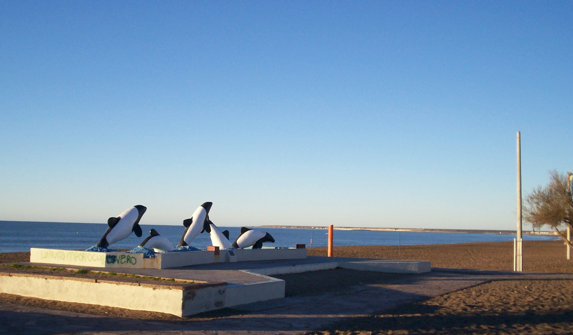 Playa Union, Rawson, Chubut, Argentina, Monumento a las toninas